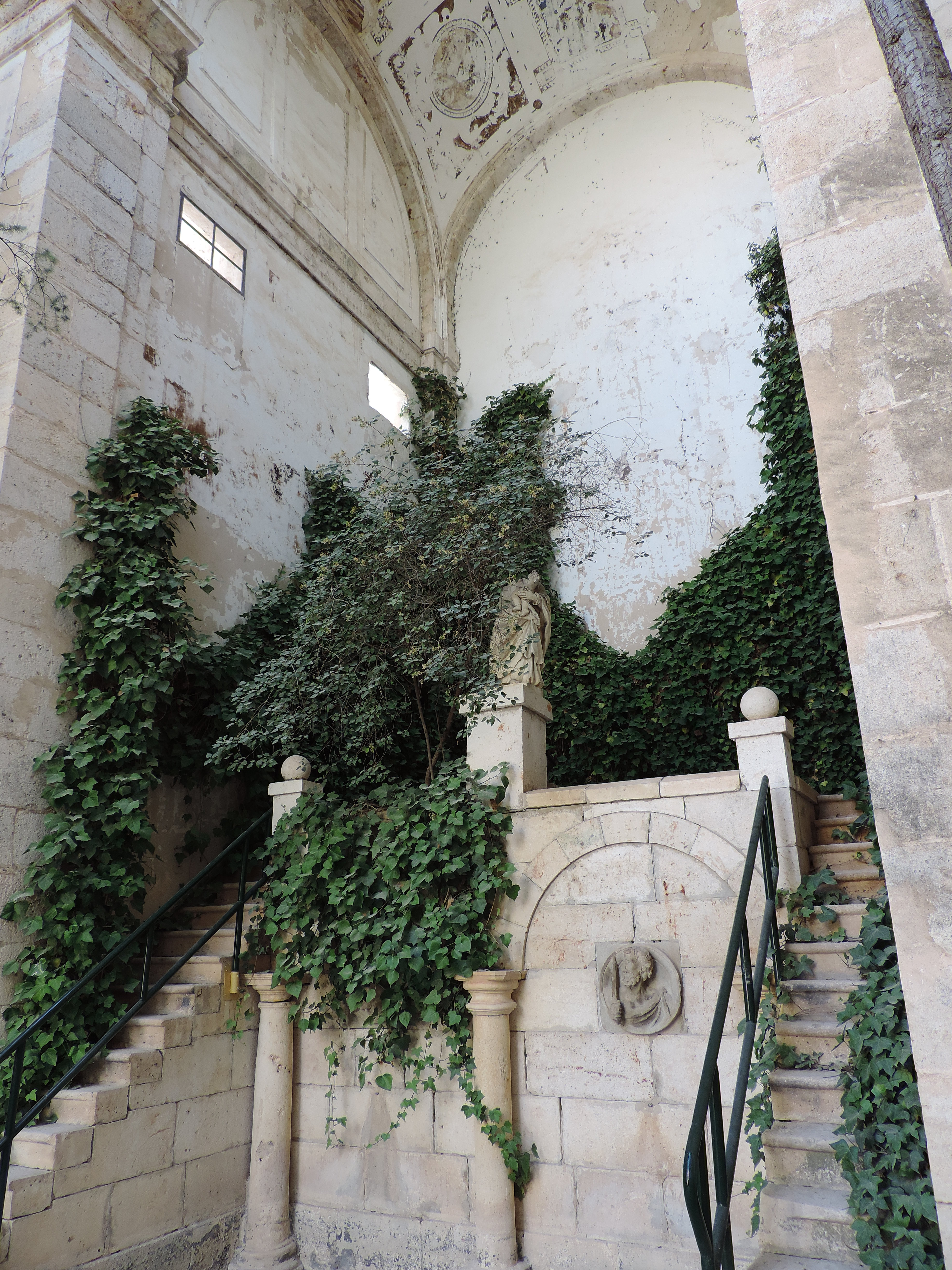 Iglesia del Monasterio de Lupiana